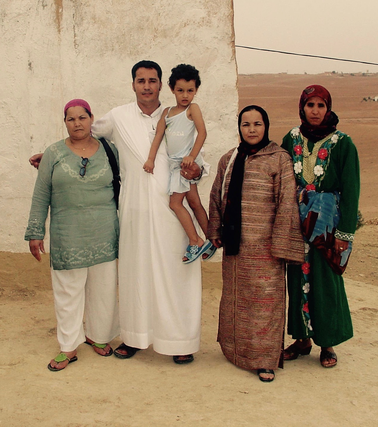 A Shluh people (Berber sub-group) family in southern Morocco (2003). This is a derivative work on the following image available on wikimedia with Creative Commons license: File:Chleuh Morocco.JPG